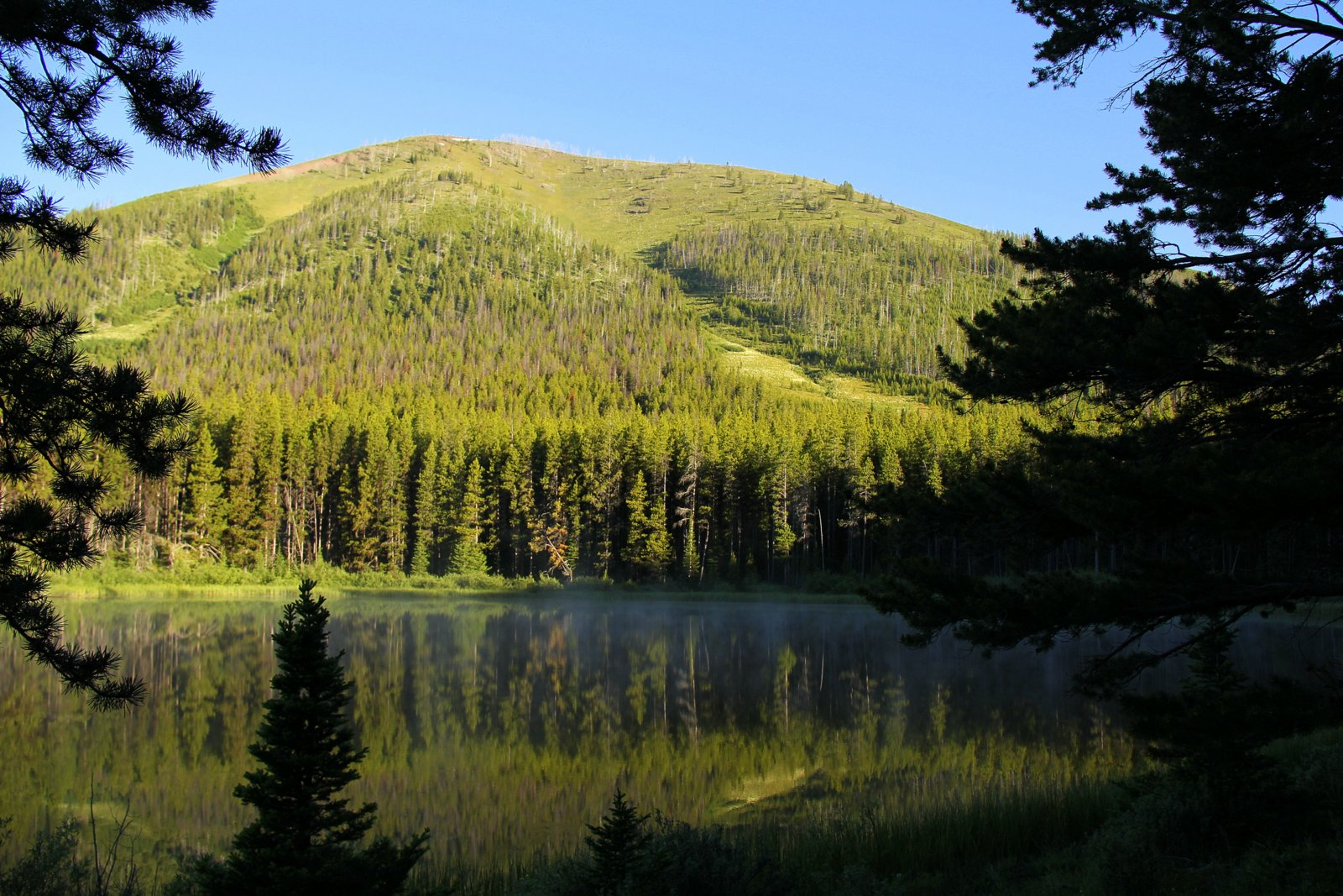 A scenic view of Bugle Mountain between the trees at sunrise in the Scapegoat Wilderness. The United States congress designated the Scapegoat Wilderness in 1972 with a total of 239,936 acres. The long northwest border of the Scapegoat Wilderness is shared with the Bob Marshall Wilderness and the massive limestone cliffs that dominate 9,204 ft Scapegoat Mountain are an extension of the "Bob's" Chinese Wall. Elevations range from 5,000 feet on the North Fork Blackfoot River to 9,400 feet on Red Mountain; the highest peak in the Wilderness Complex. Together, the Great Bear Wilderness, the Bob Marshall Wilderness and the Scapegoat Wilderness form the Bob Marshall Wilderness Complex, an area of more than 1.5 million acres. U.S. Forest Service photo by Brandan W. Schulze.